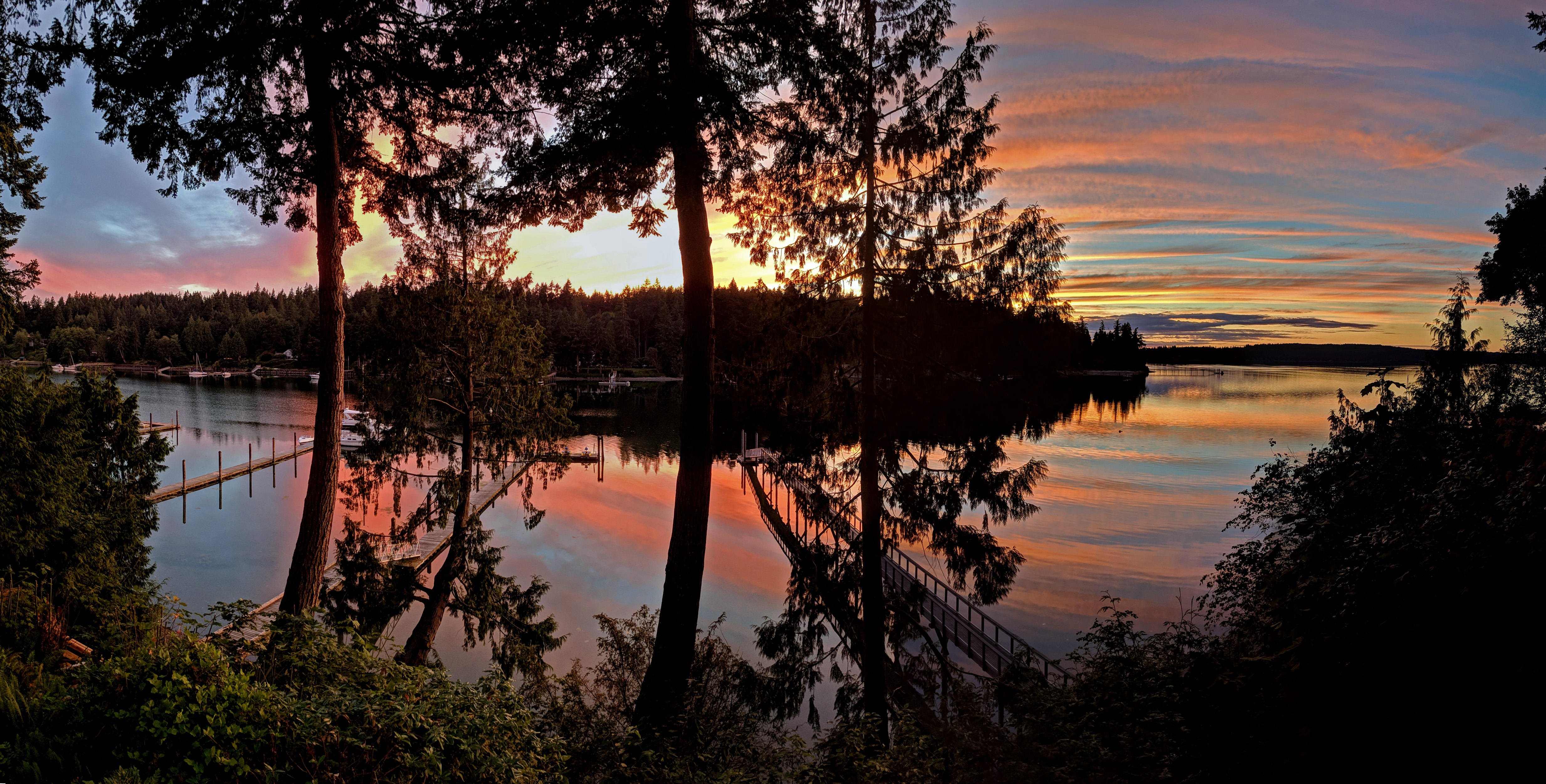 West-facing views over water often reflect the sunset, as here at Manzanita Bay, Bainbridge Island, Washington